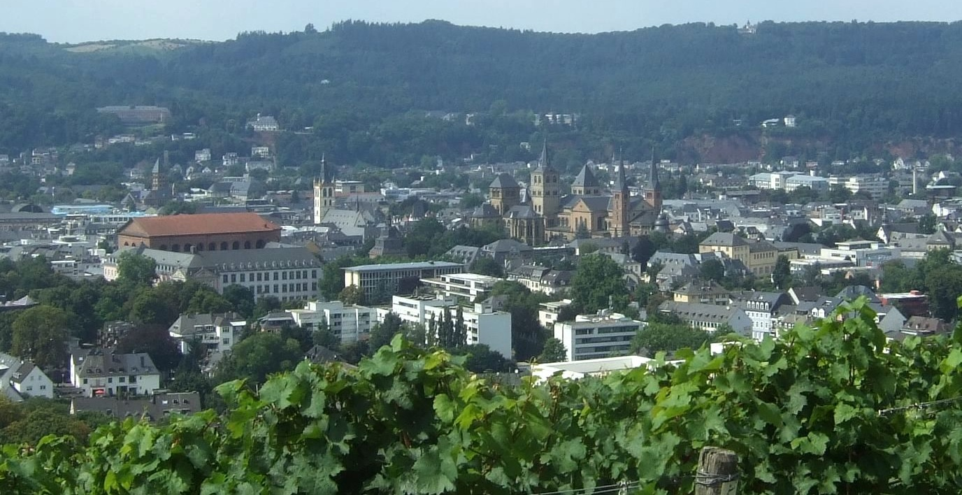 Trier city from Petrisberg